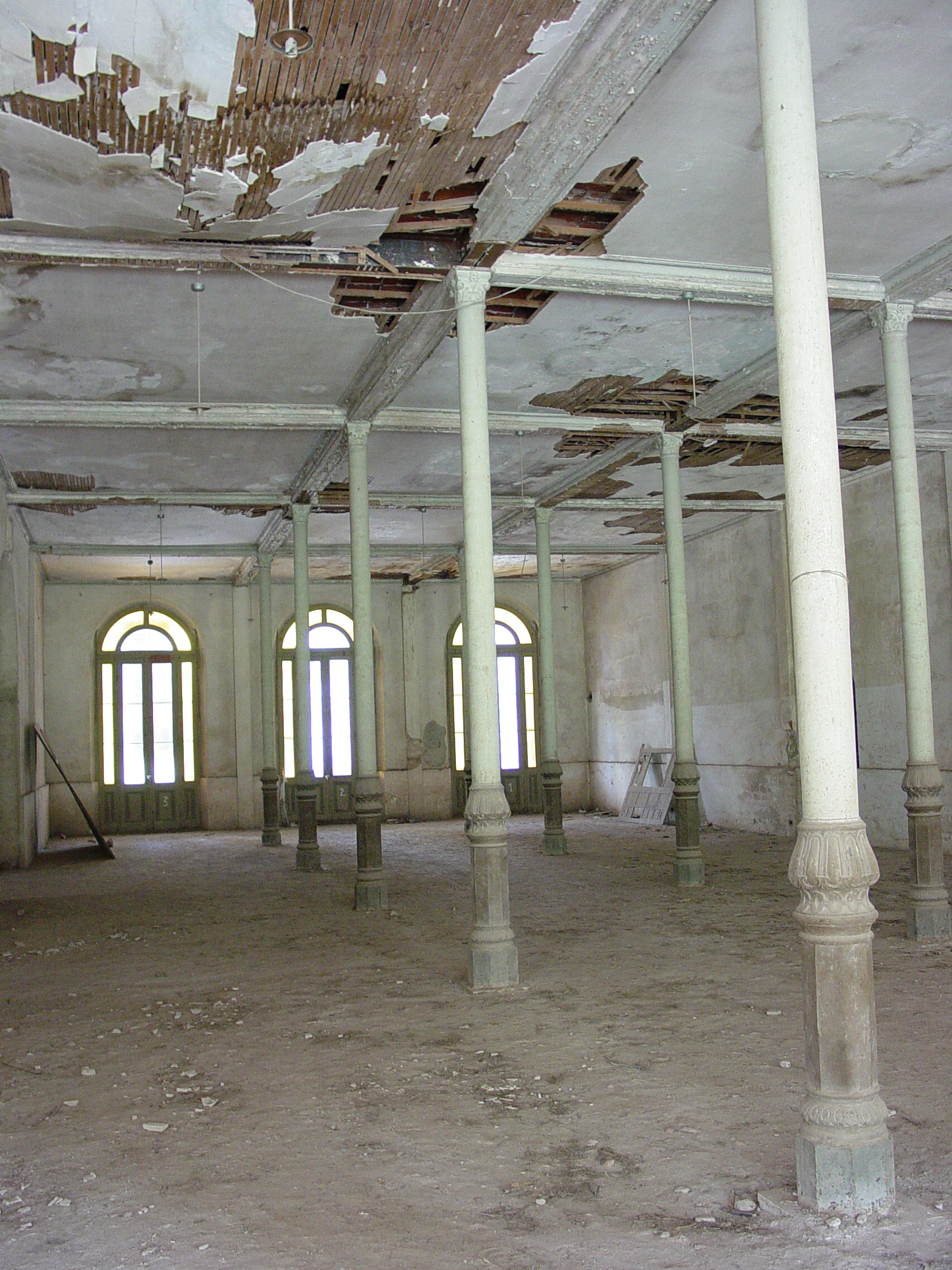 Hotel Eden, La Falda, Argentina. December 2004. This hotel was founded in 1897 as a playground for the Argentine and international elite. In its prime, its guests included Albert Einstein (as part of an international scientific delegation in the 1920s), Rubén Darío (the Nicaraguan poet, arguably Latin America's greatest literary figure), and various Argentine and Brazilian presidents, including Juan Perón. Its German owner made the mistake of supporting the Nazis a little too overtly during World War Two, and was stripped of his possession after the war, until the Argentine government had a change of heart and restored it to him a few years later. (A popular local myth has it that Hitler himself spent some time here, in one of the outlying cabañas, after faking his death, fleeing Germany, and emigrating to Argentina along with Adolf Eichmann et al.) The town of La Falda grew up around the hotel, and eventually crowded it out with competition; the Edén was maintained through the mid-1960s, until it fell into disrepair and was abandoned.